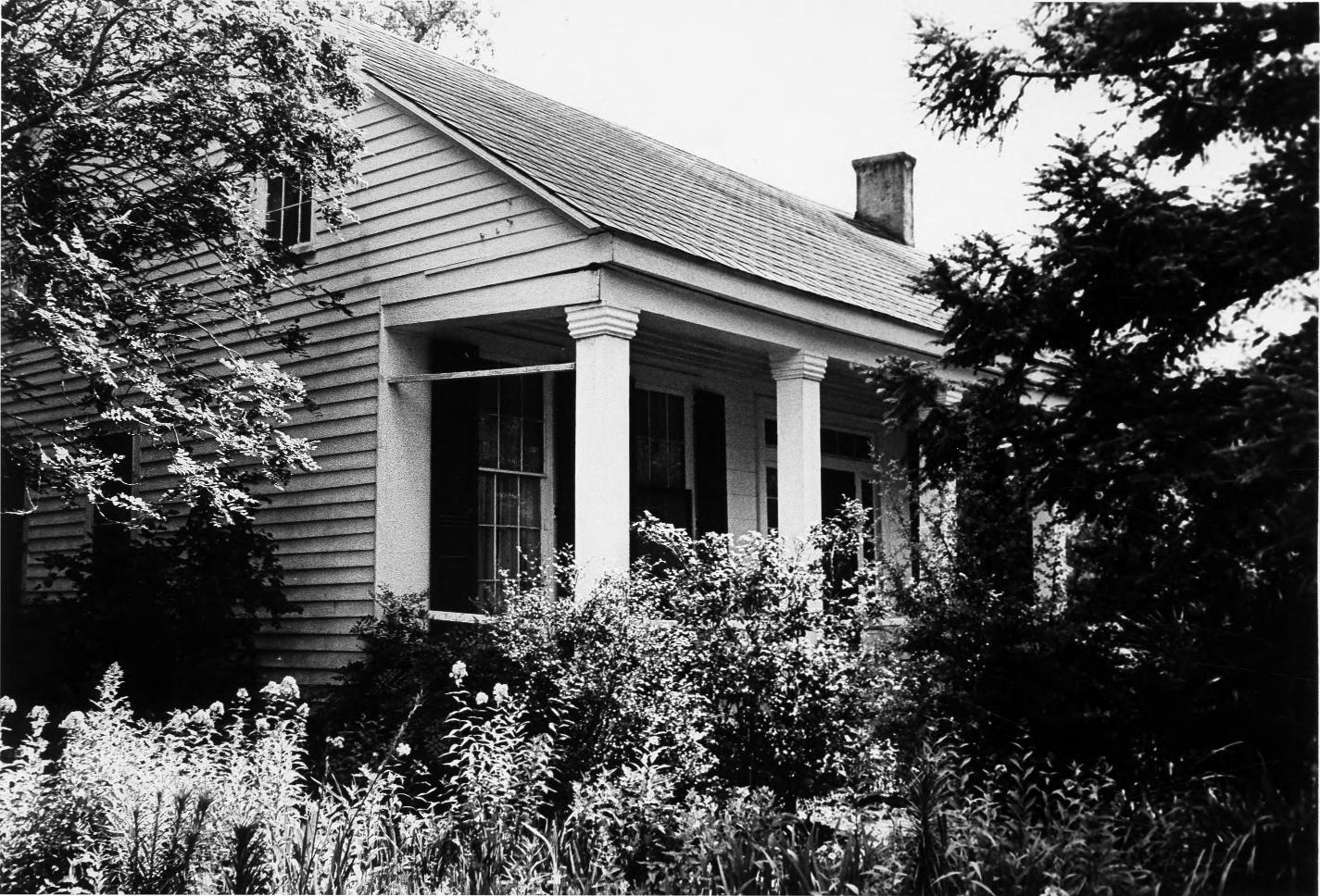 Henry D. Clayton House in Barbour County, Alabama.